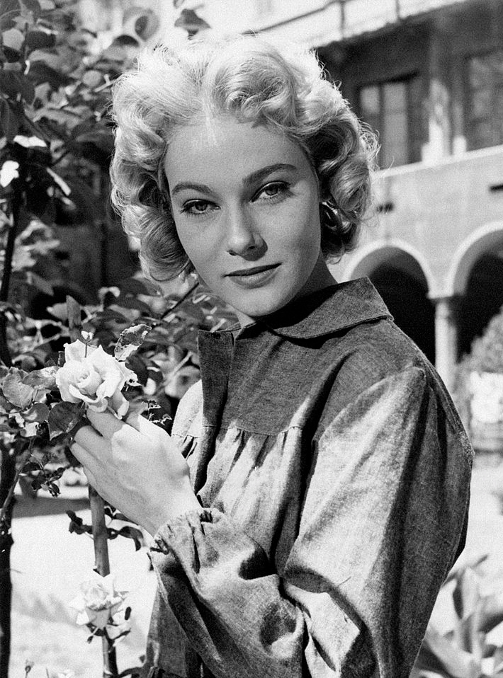 The Swedish actress May Britt (Maybritt Wilkens) acting in the film 'L'ultimo amante'. 1955